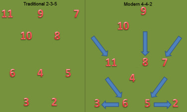 Evolution of the 2-3-5 formation into the modern 4-4-2 in relation to numbering.